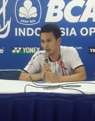 Mohammad Ahsan during a press conference at 2016 Indonesia Open Super Series Premier